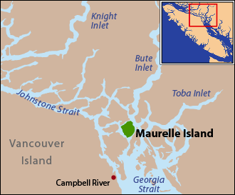 This is a locator map of Maurlle Island. I, Pfly, made it with ArcGIS, Adobe Illustrator, and Adobe Photoshop. The coastline data is from the Digital Chart of the World.